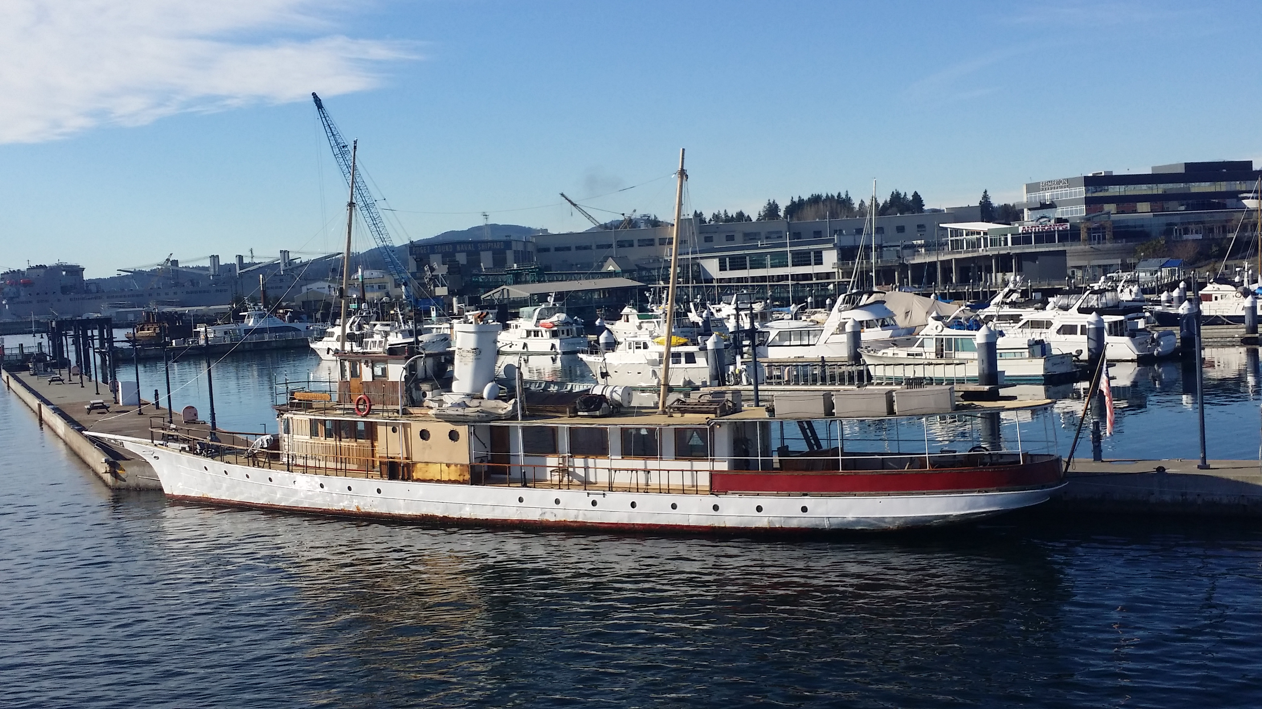 El Primero